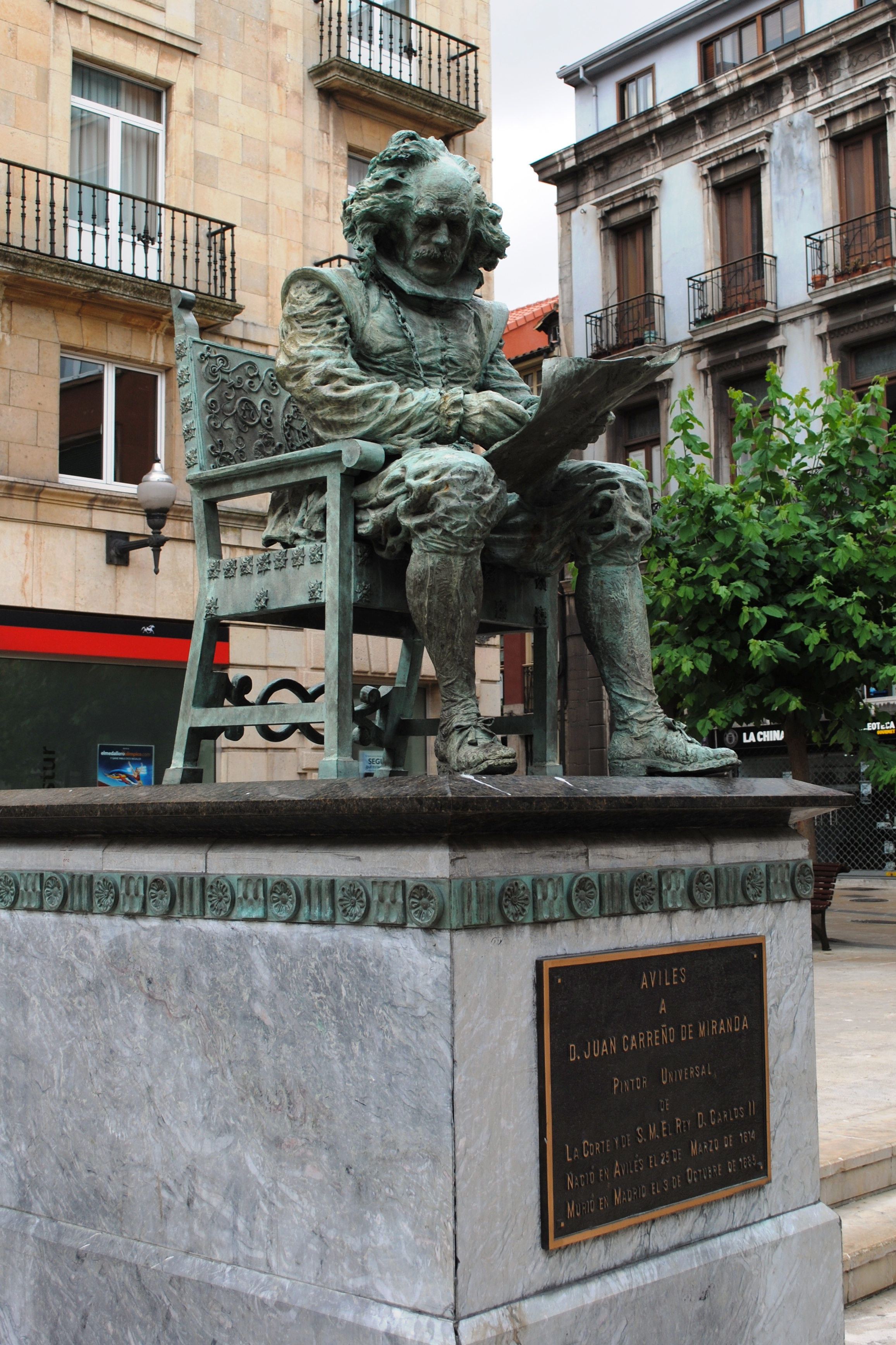 See title.